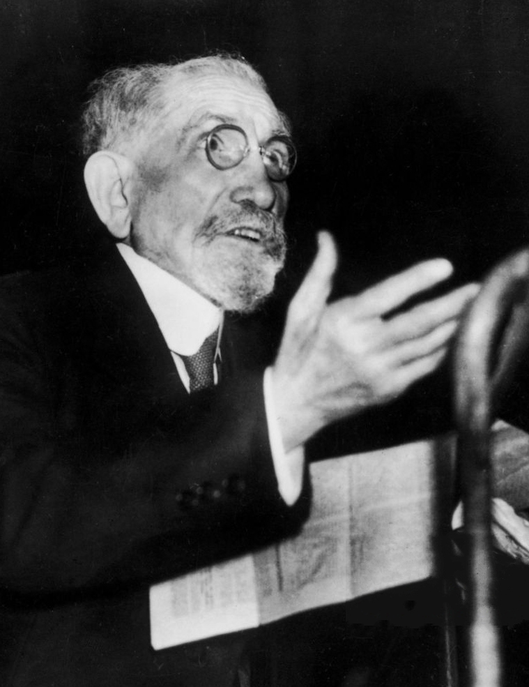 Charles Maurras On His Trial In Lyon, 1945